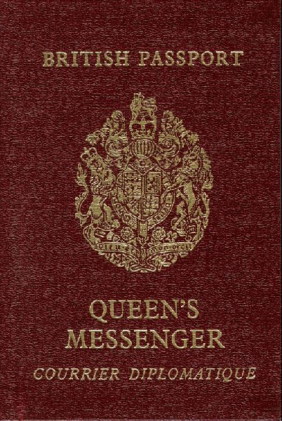 Queen's Messenger passport from 1970